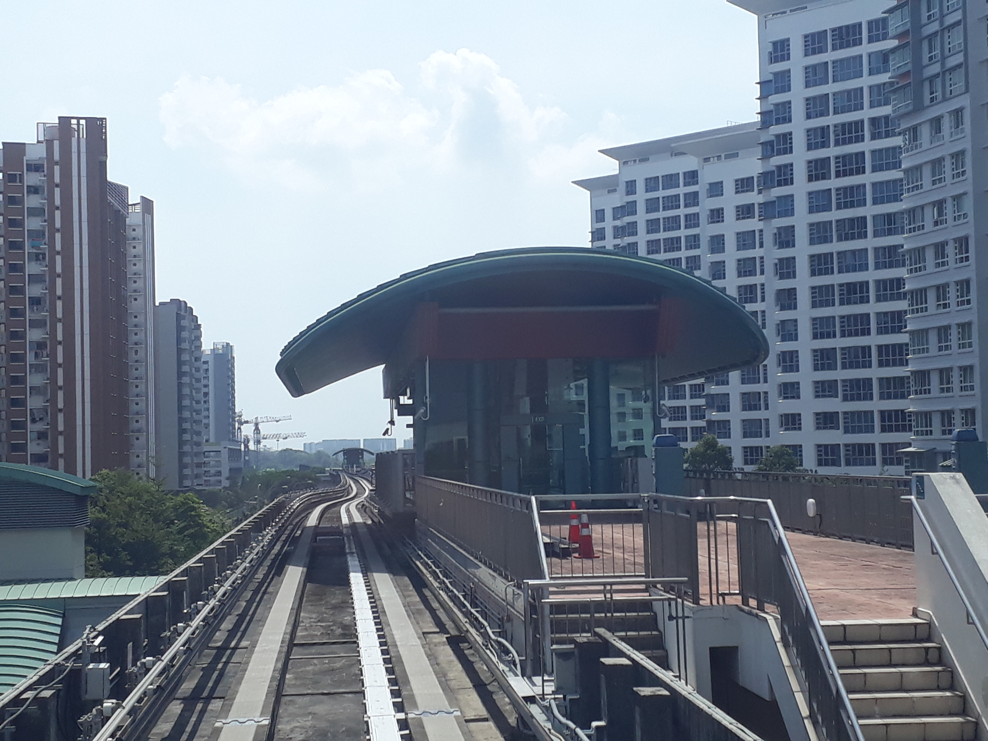 Oasis LRT station